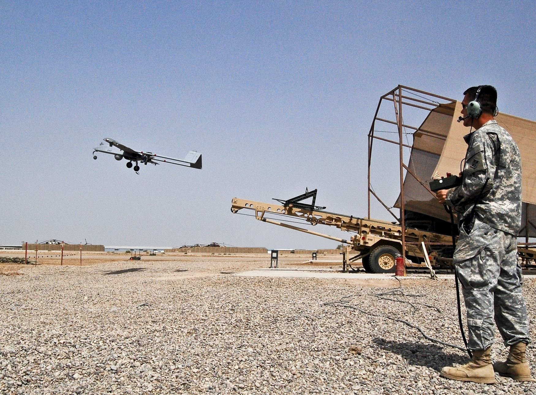 Spc. Raymond Poltera, a Tactical Unmanned Aerial Vehicle Mech with 1st Brigade Combat Team, 4th Infantry Division, launches an RQ-7B Shadow 200 TUAV on Camp Taji, Aug. 11. The Shadow provides commanders on the ground throughout the MND-B area of operations the ability to quite literally see the entire battlefield.